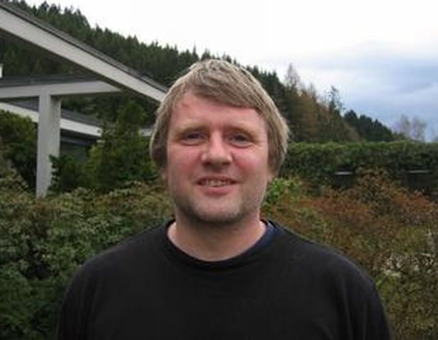 Roland Speicher, Oberwolfach 2005